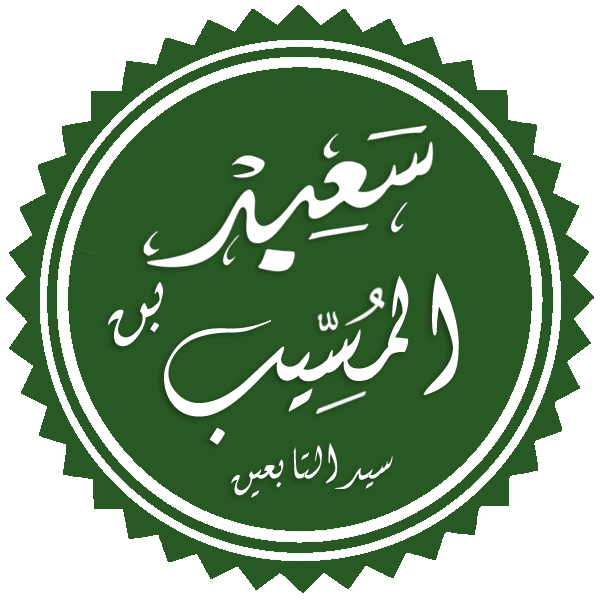 Sa‘id ibn Al-Musayyib's name in Arabic calligraphy